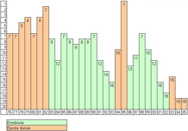 Dutch league positions of Fortuna, last 30 seasons